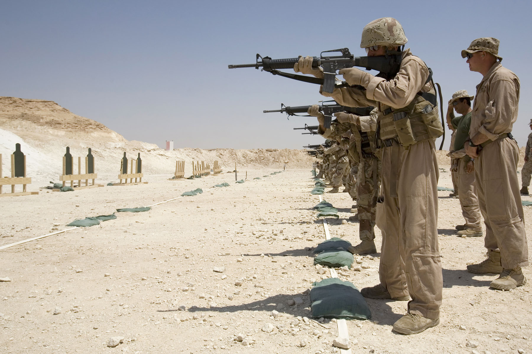 17 August 2007, Iraqi soldiers with 2d Brigade, 7th Iraqi Division shoot M16A2 rifles at the small arms range at Camp Al Asad, Iraq. Marines from 4th Reconnaissance Battalion, 4th Marine Division are working with the Iraqi soldiers to teach them close quarters combat. 2d Brigade, 7th Division is with Multi National Forces-West in support of Operation Iraqi Freedom in the Al Anbar province of Iraq to develop Iraqi Security Forces, facilitate the development of official rule of law through democratic reforms, and continue the development of a market based economy centered on Iraqi reconstruction. (Official USMC photograph by Cpl. Shane S. Keller)